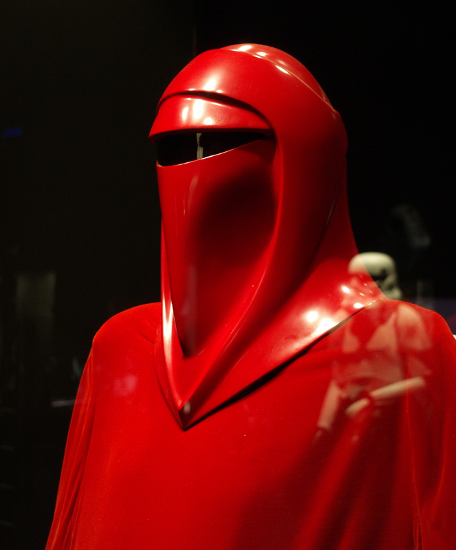 Imperial guard (Star Wars exhibition, Madrid, Spain, 2009).